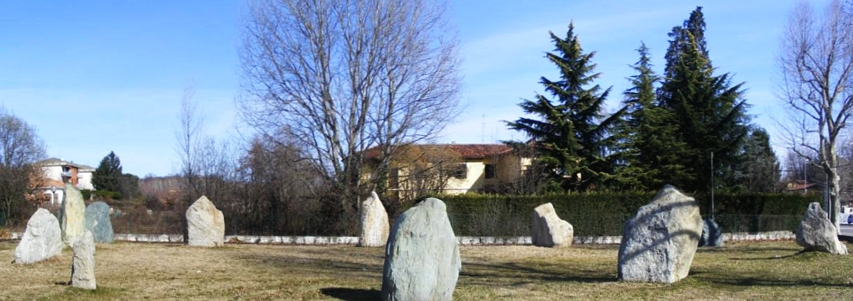 Cavaglia (BI, Italy): menhir circle